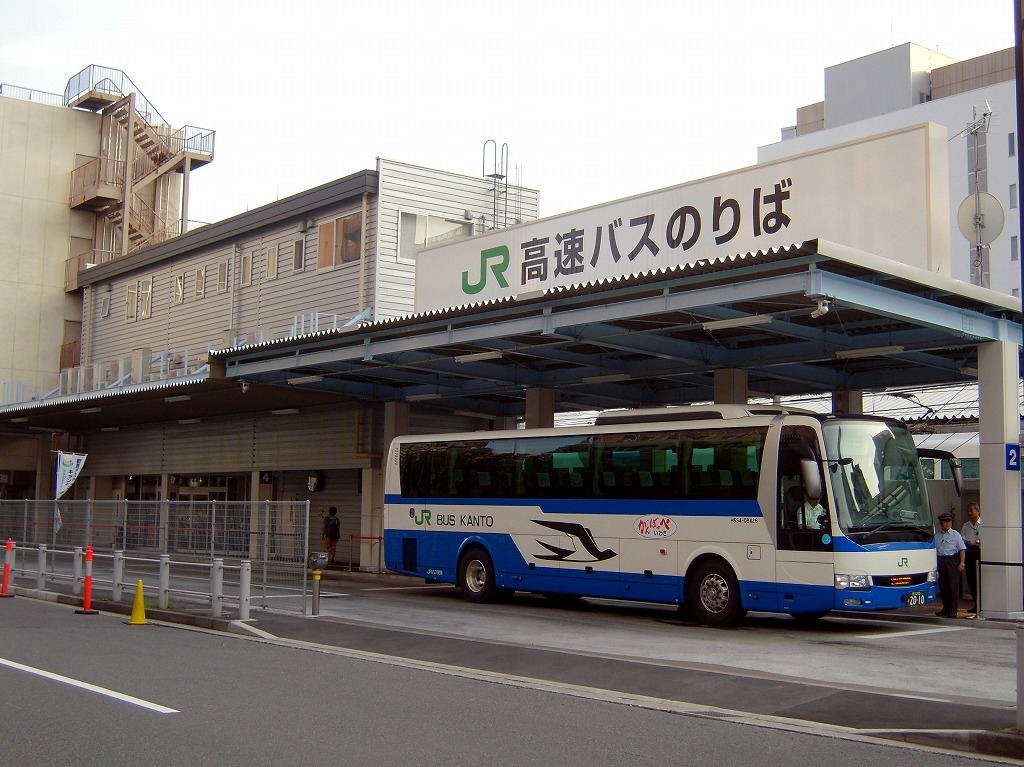 JR Shinjuku station bus terminal (Yoyogi)